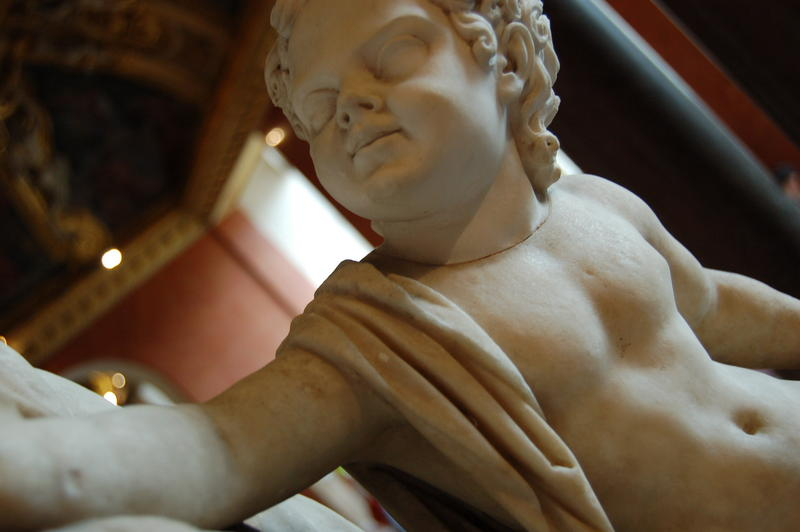 Britannicus, son of the Roman emperor Claudius. Detail of a statue of his mother Messalina. Marble, ca. 45 AD.